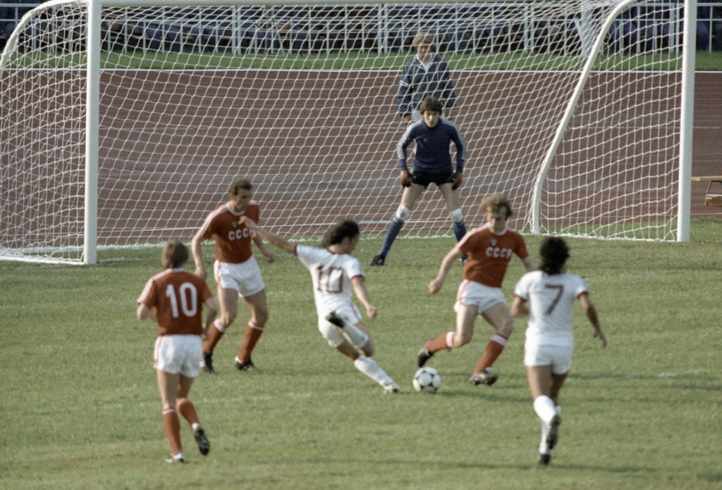 “The USSR and Venezuelan soccer teams during the XXII Olympic Games”. The USSR and Venezuelan soccer teams during the XXII Olympic Games in Moscow. Players: 10 (USSR, red) - Fedor Cherenkov 7 (Venezuela, white) - Alexis Peña 10 (Venezuela, white) - Bernardo Añor Guillamón Goalkeeper - Rinat Dasayev (USSR)